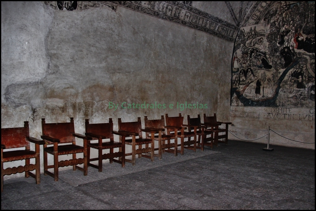 Ex Convento Agustino Siglo XVI (San Nicolás Tolentino) Actopan,Estado de Hidalgo,México